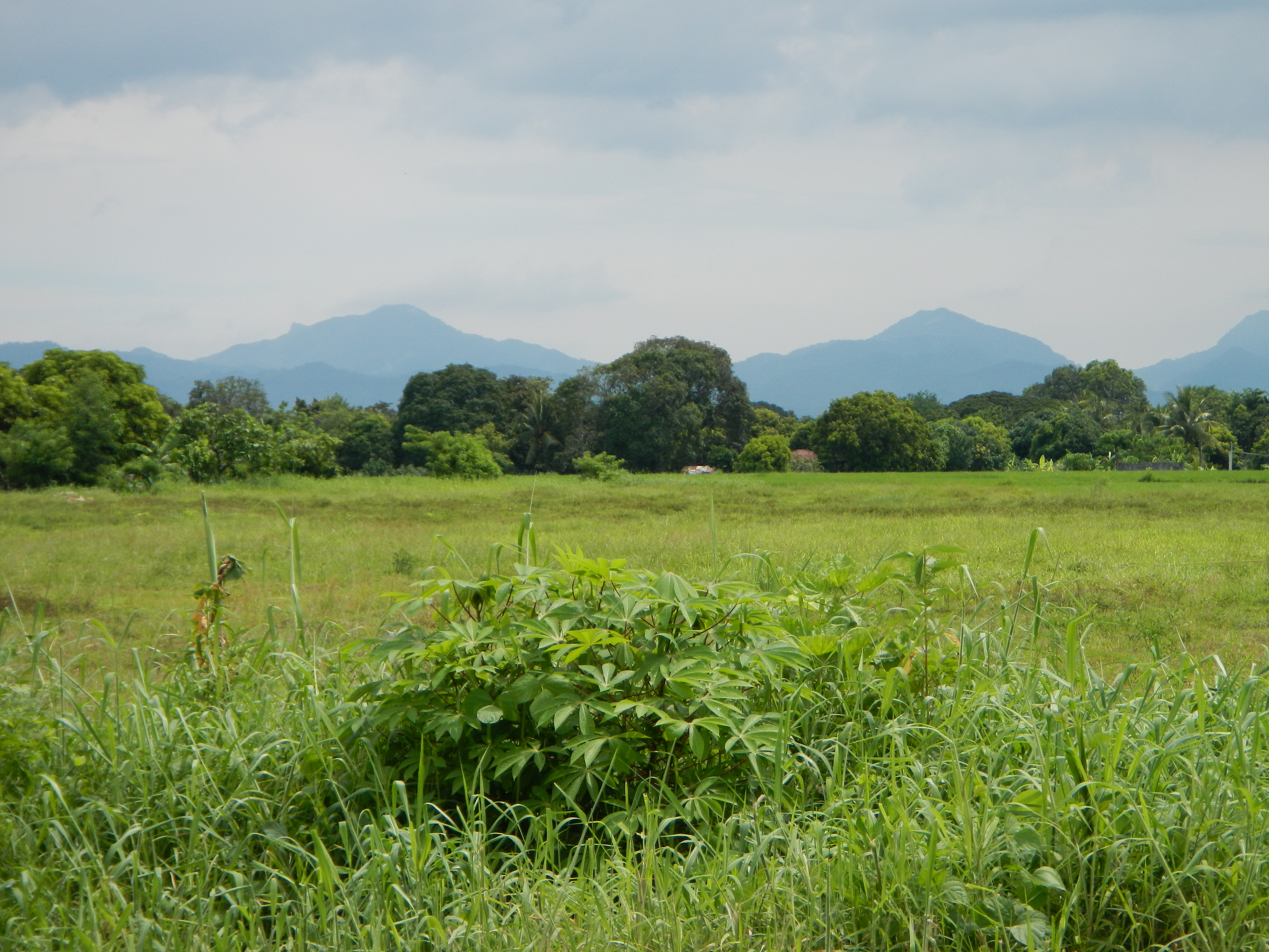 Scenic Barangay Sabang, Naic, Cavite near the Welcome Arch by the Boundary Barangays of Sabang, Naic, Cavite[1] and Tanauan, Tanza, Cavite[2] -- the main route to Santa Ana Park Race Track - ---Saddle & Clubs Avenue & Governor'Drive [3] ( Governor's Drive is a 2 to 6 lane, 49.3-kilometre (30.6 mi) network of roads and bridges traversing through the central cities and town in the province of Cavite, the eastern terminus of the highway is at Biñan, Laguna then it travels along Carmona, GMA, Dasmariñas City, General Trias, Trece Martires City, southern Tanza, crosses A. Soriano Highway in Naic and ends in Ternate. (Tanza-Trece Martires City-Indang Road Intersection - This intersection is located geographically, at the heart of Trece Martires City and of the province of Cavite. Right goes to the town of Tanza, left goes to the towns of Indang and Mendez and Tagaytay City.) - Tanauan, Tanza[4], Cavite, [5] Geographical location: Cavite, Region 4, Philippines, Asia Geographical coordinates: 14° 23' 40" North, 120° 51' 11" East; This place is situated in Cavite, Region 4, Philippines, its geographical coordinates are 14° 23' 40" North, 120° 51' 11" East and its original name (with diacritics) is Tanza. Municipality of Tanza (Filipino: Bayan ng Tanza)(formerly known as Sta. Cruz de Malabon) is a 1st class municipality in the province of Cavite, Philippines.